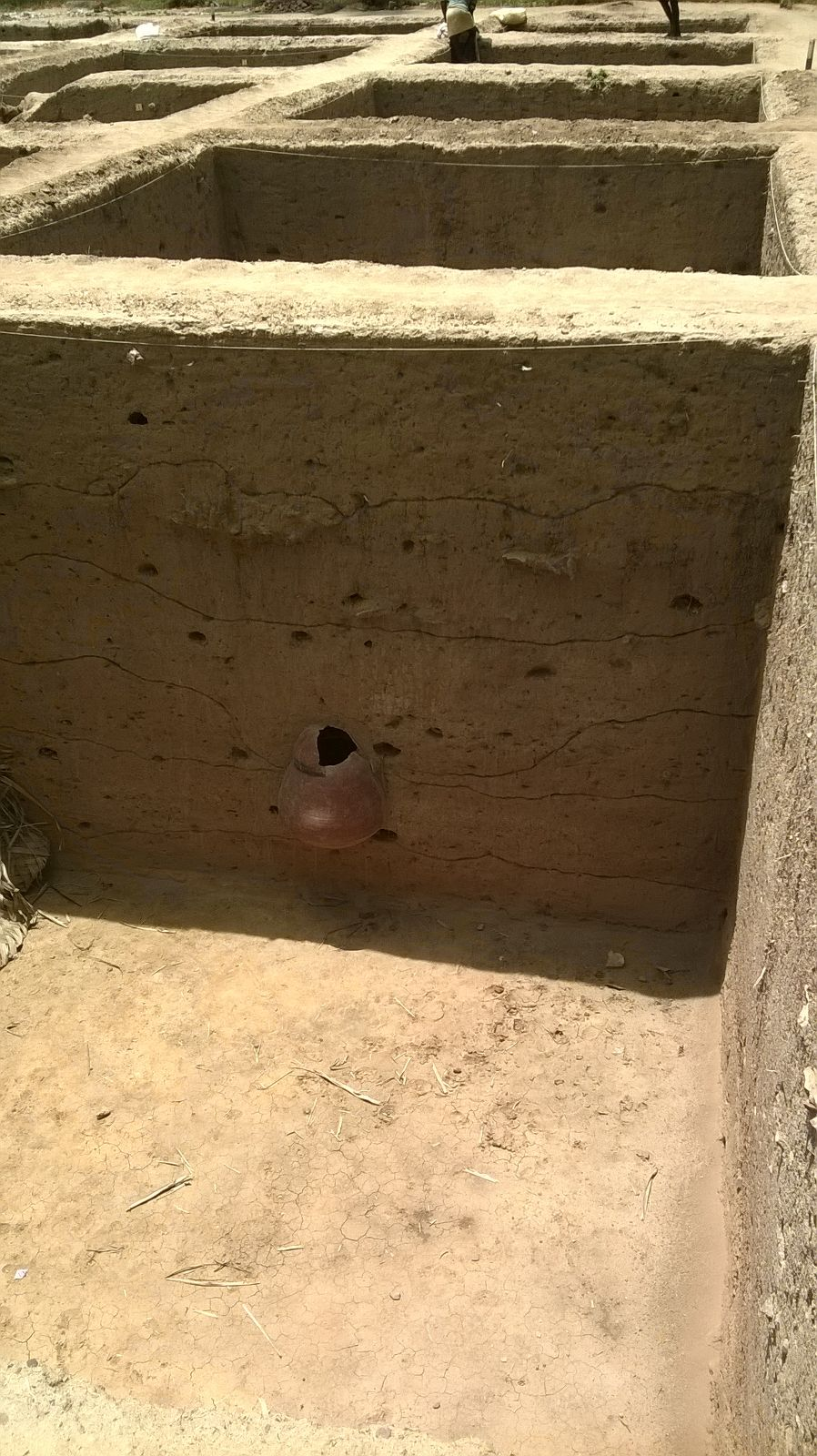 At the newly discovered archaeological site at Keezhadi near Madurai.